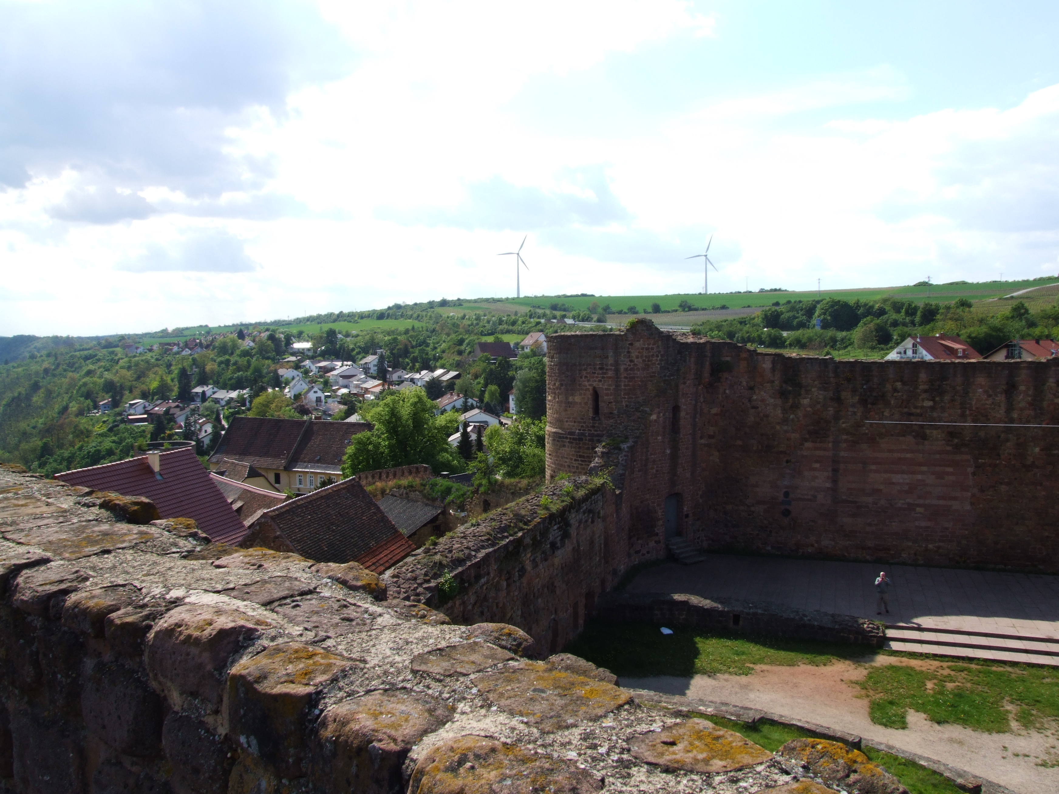 Burg Neuleiningen, looking south